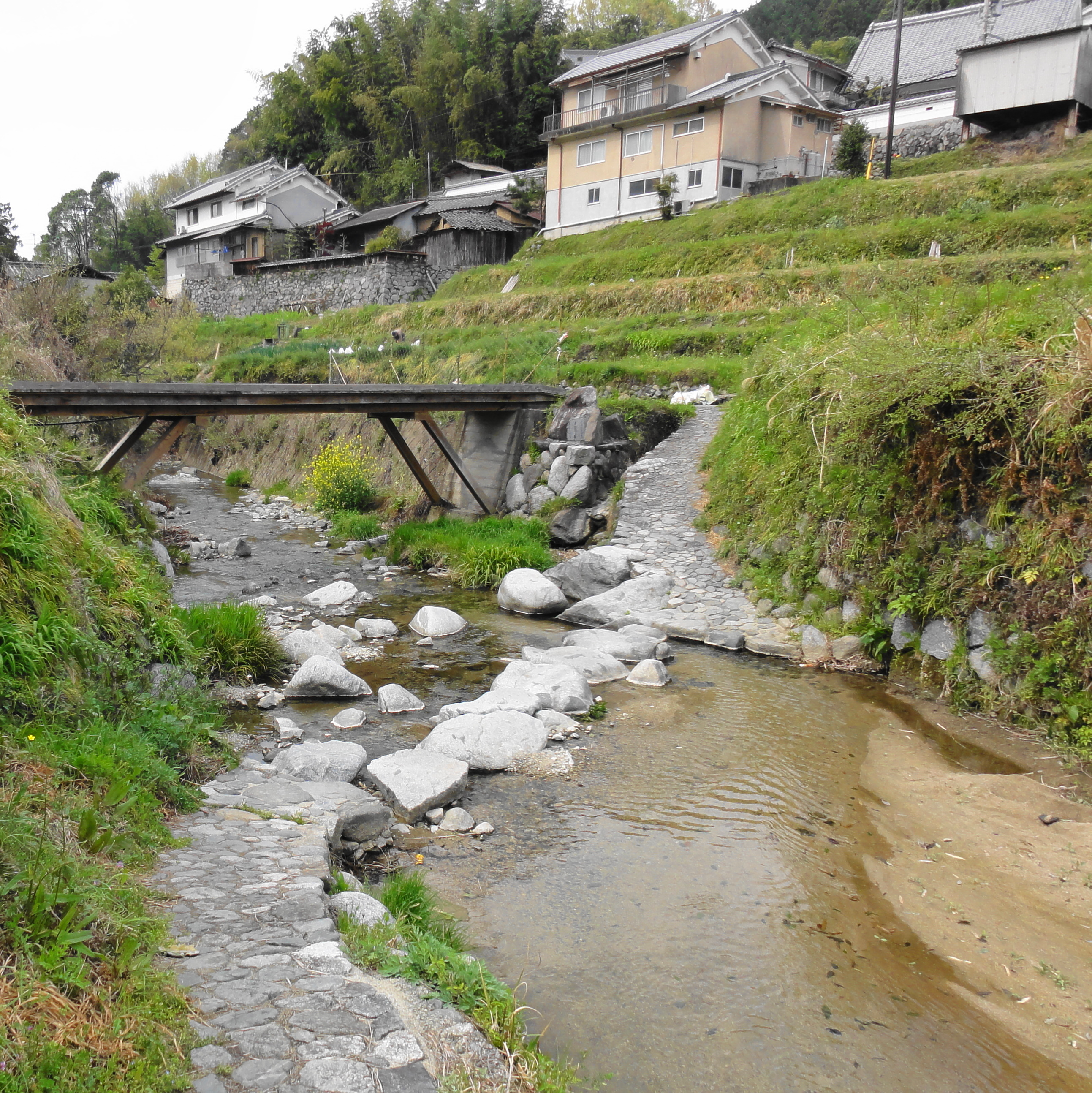 Rock bridge of Asuka,Nara prefecture,Japan